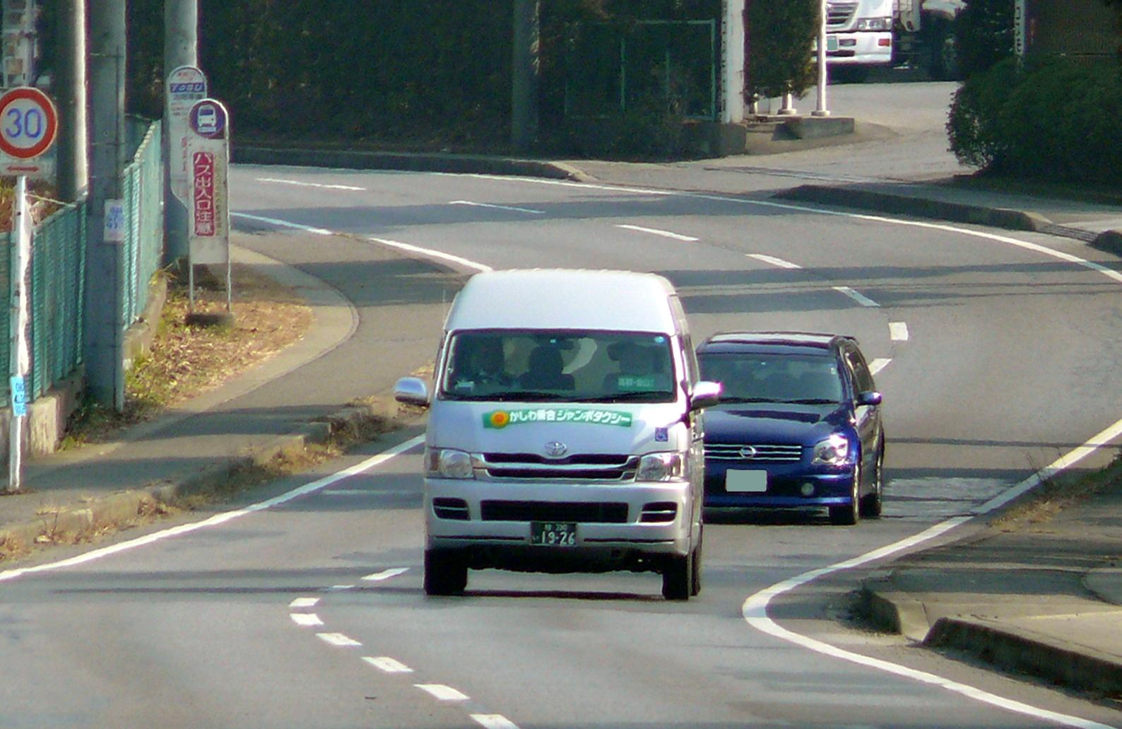 Kashiwa Jumbo taxi(Japan).